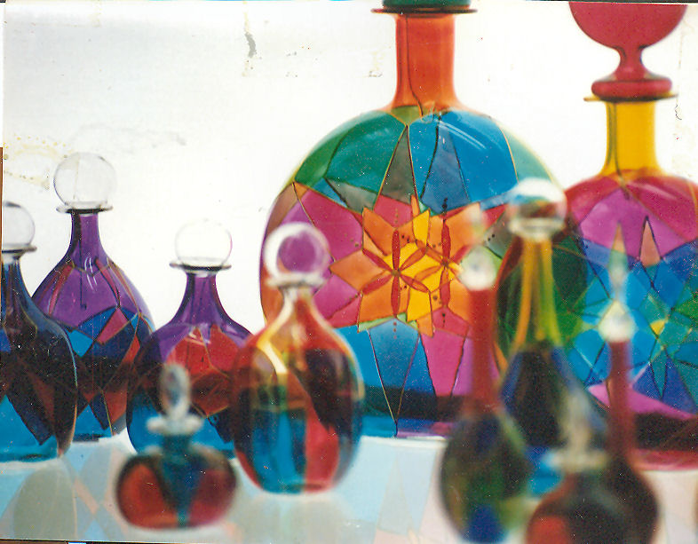 Precious objects from Venice - Murano glassware.